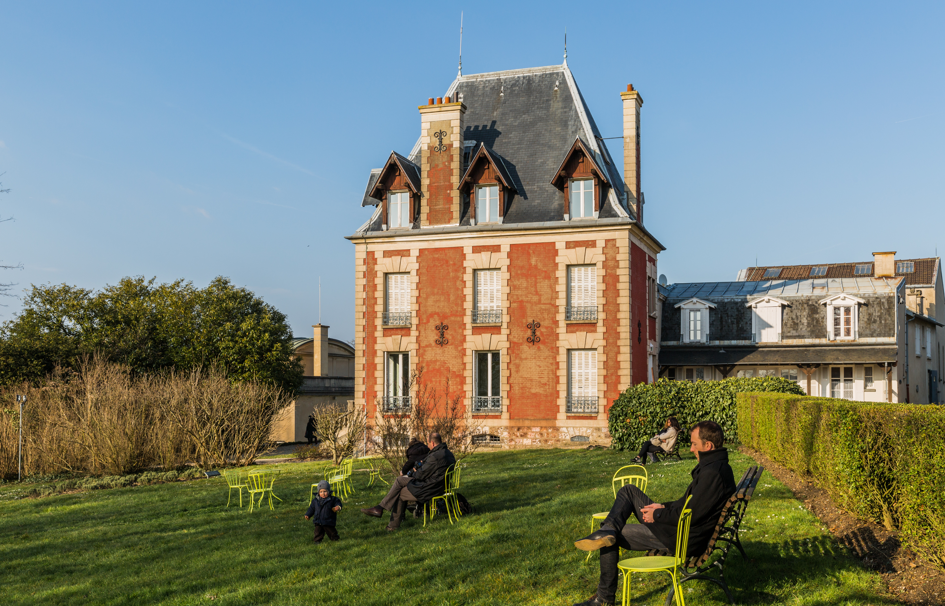 Auguste Rodin lived in "Villa des Brillants", Meudon. with his wife Rose Beuret from 1895 to his death 2017. He is buried in the garden of the villa.